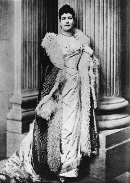 Lilian Warren Price (18xx-11 January 1909)